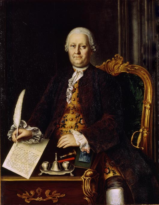 Portrait of Savva Yakovlevich Yakovlev (1712-1784)